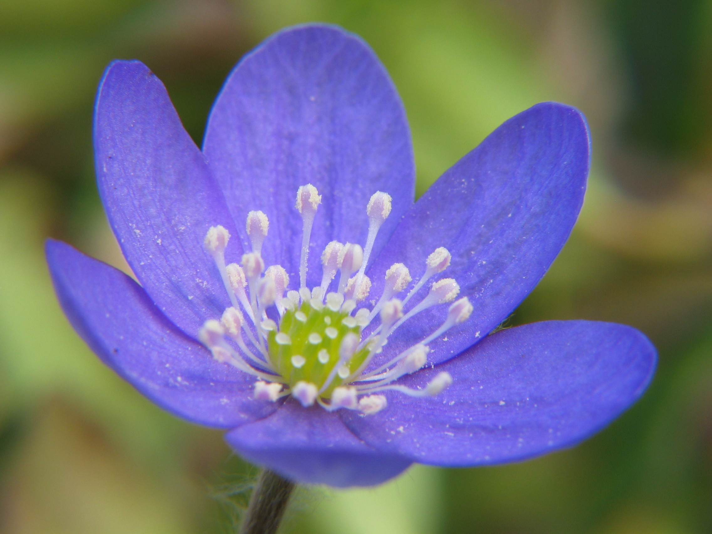 Hepatica nobilis, photo taken in Sweden